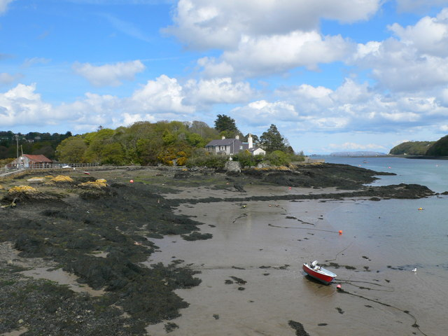 Ynys Faelog, Anglesey. Small private island, linked to the mainland by a bridge at high tide, at Menai Bridge. Photo taken from Menai Bridge Promenade